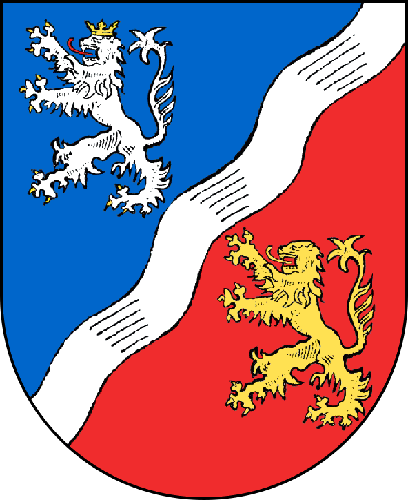 Samtgemeinde Bodenwerder-Polle coat of arms